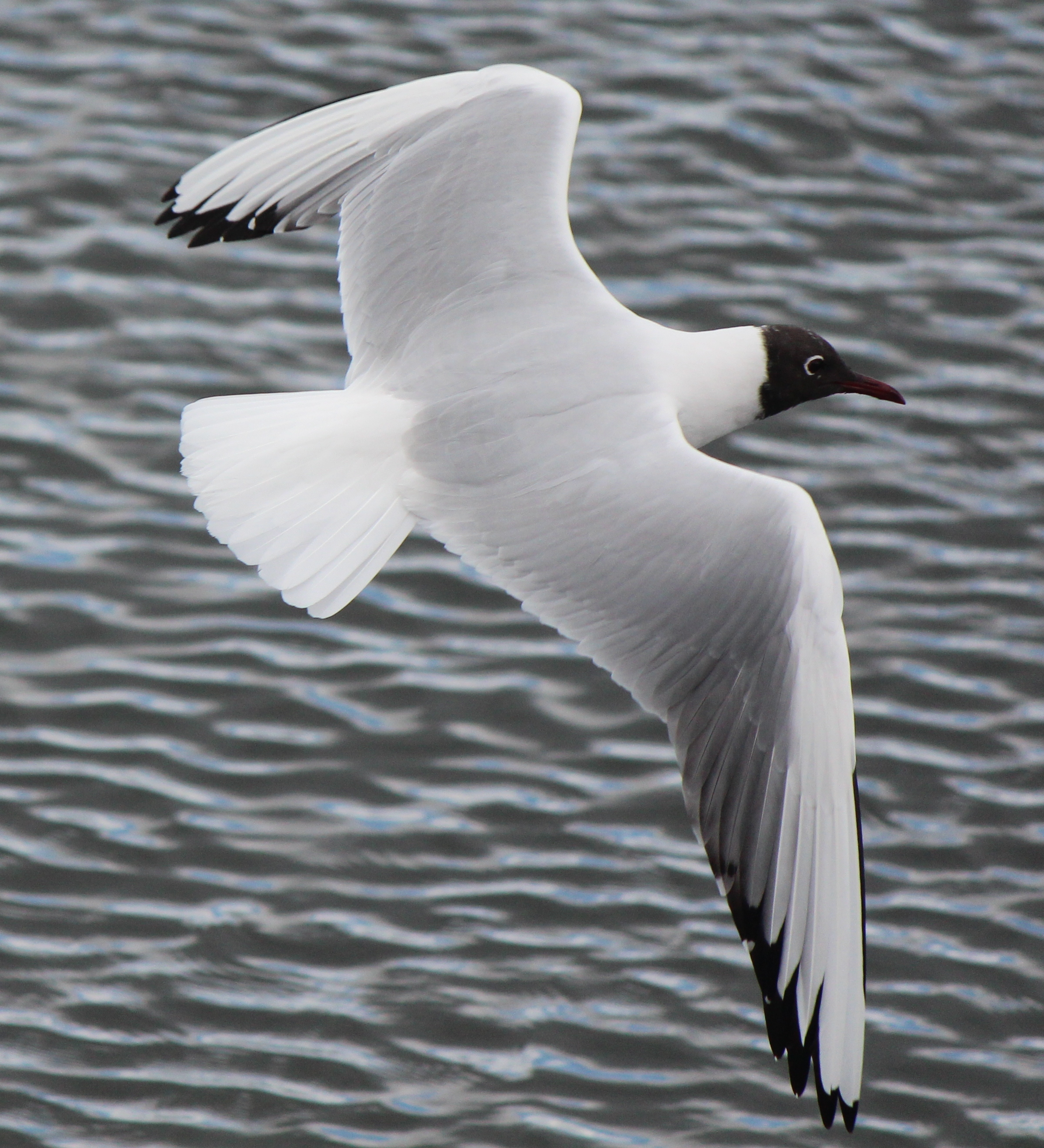 Chroicocephalus ridibundus (Black-headed Gull) in flight (adult in summer plumage) in Japan